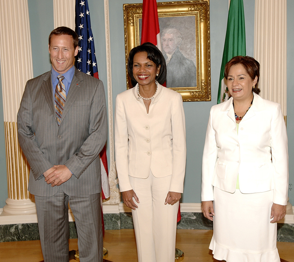 US Secretary of State Condoleezza Rice (center) stands with The Honorable Peter G. MacKay, Minister of Foreign Affairs of Canada and Her Excellency Dr. Patricia Espinosa Cantellano, Secretary of Foreign Relations of Mexico before their bilateral and working lunch at the US State Department.